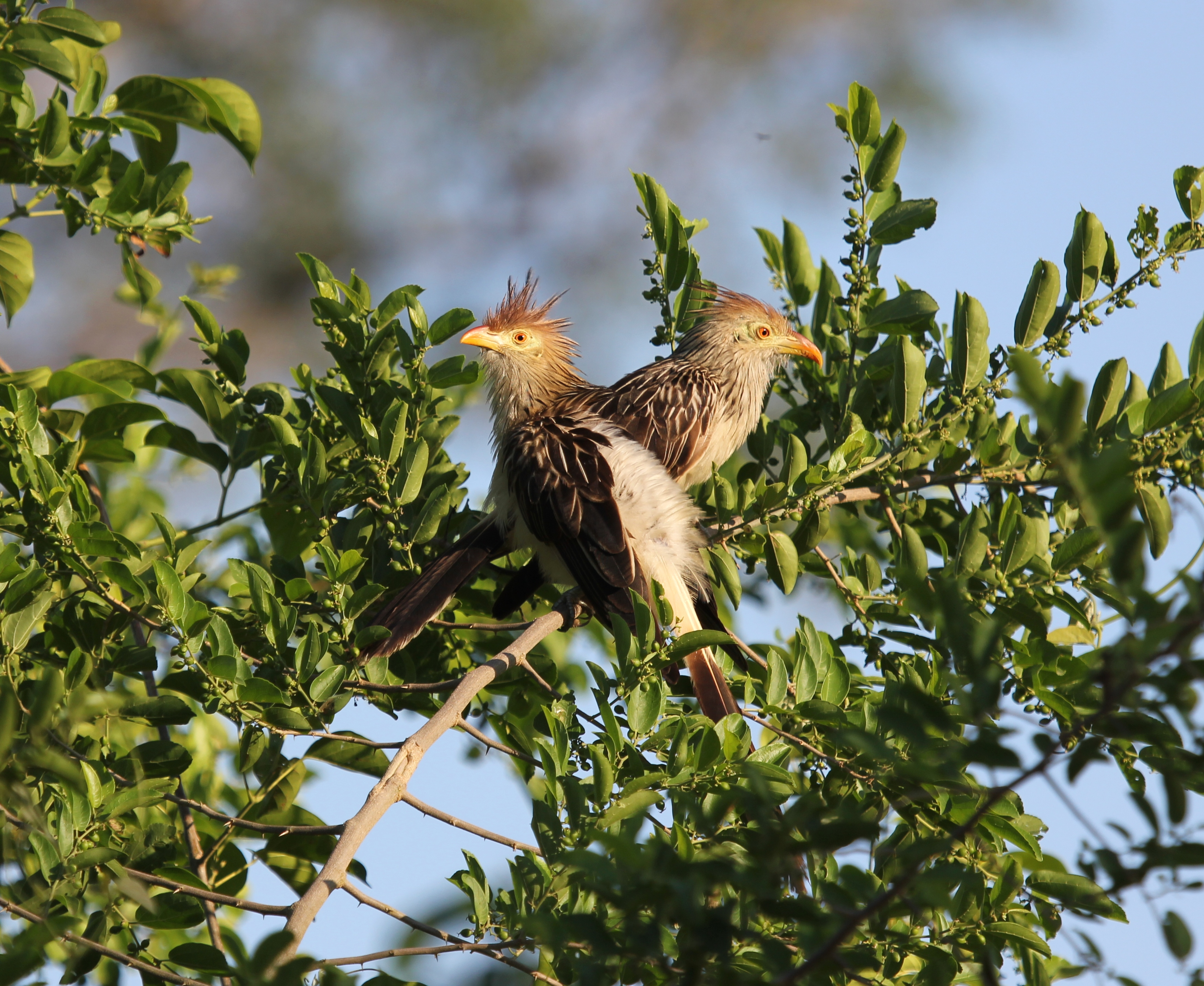 Guira Cuckoos (Guira guira) near the Transpantaneira in the Pantanal, Brazil